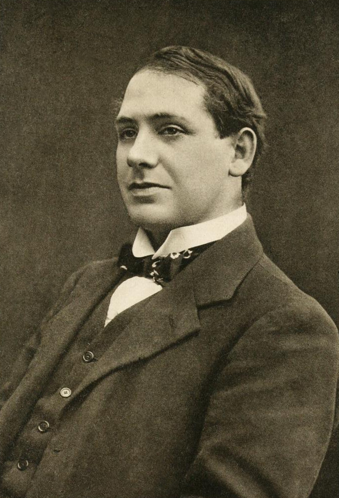 Image of Thomas Michael Kettle (Tom Kettle or T. M. Kettle)(facing page 280) from For remembrance: soldier poets who have fallen in the war